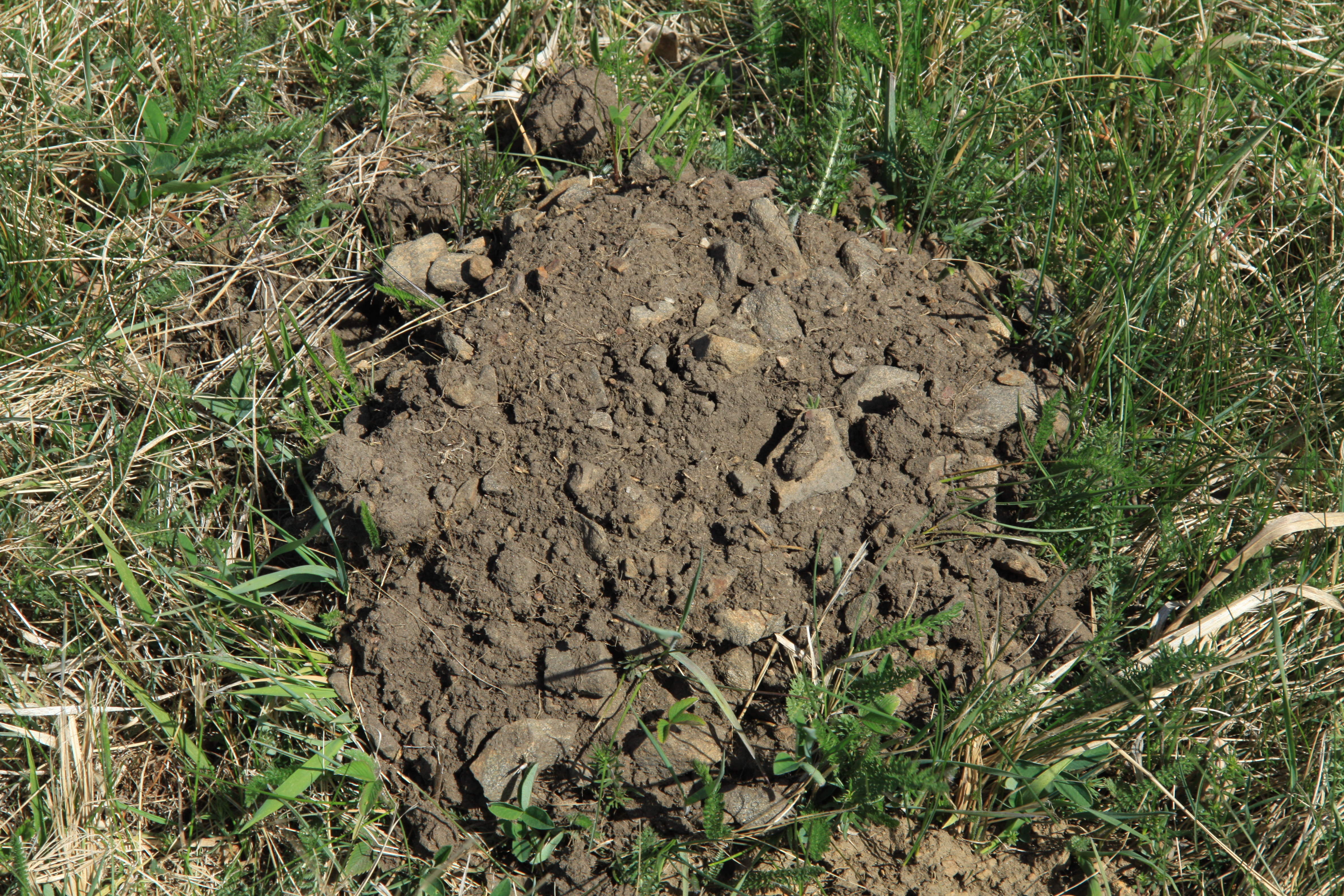 National nature reserve Vyšenské kopce in Český Krumlov District, Czech Republic Project: Chráněná území